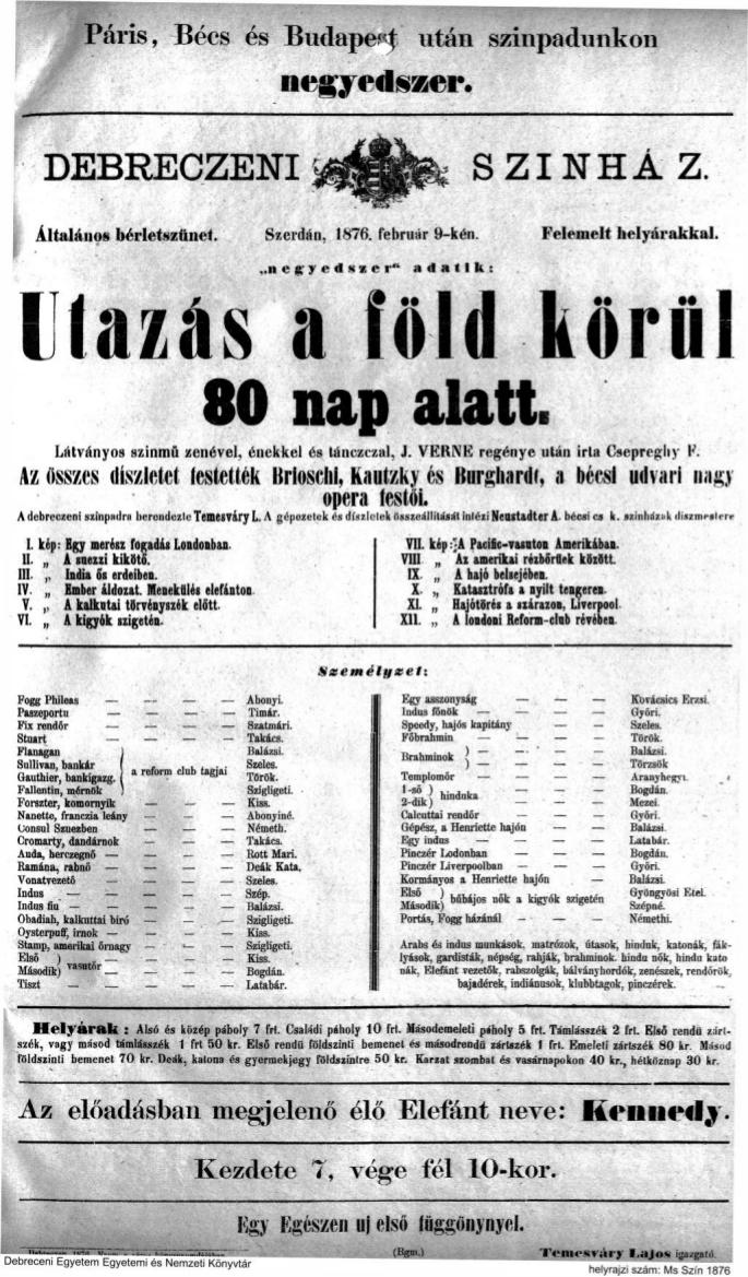 Bill of a Jules Verne-performance in Debrecen